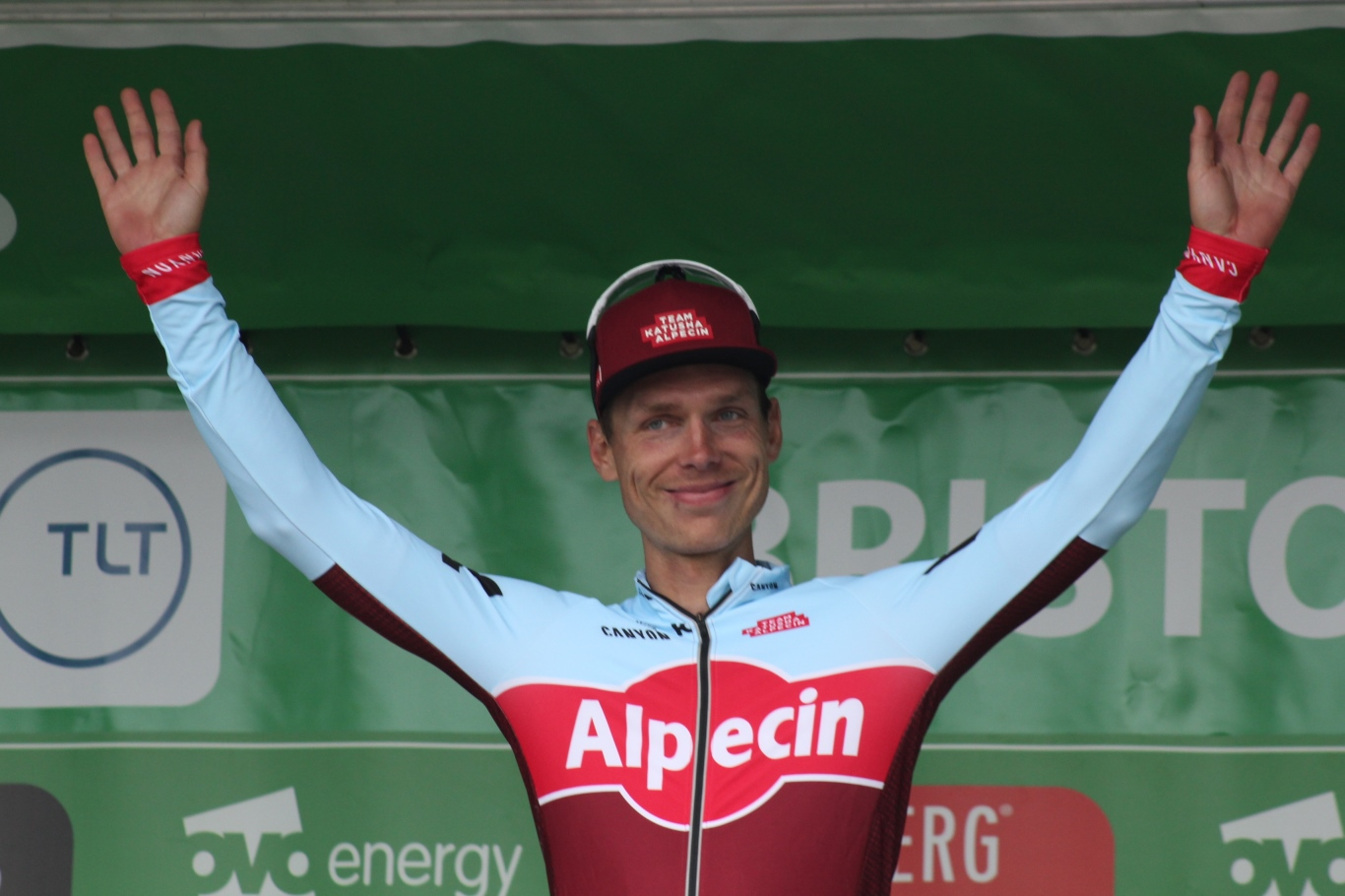 Tony Martin was judged the most combative rider in the third stage of the 2018 Tour of Britain.